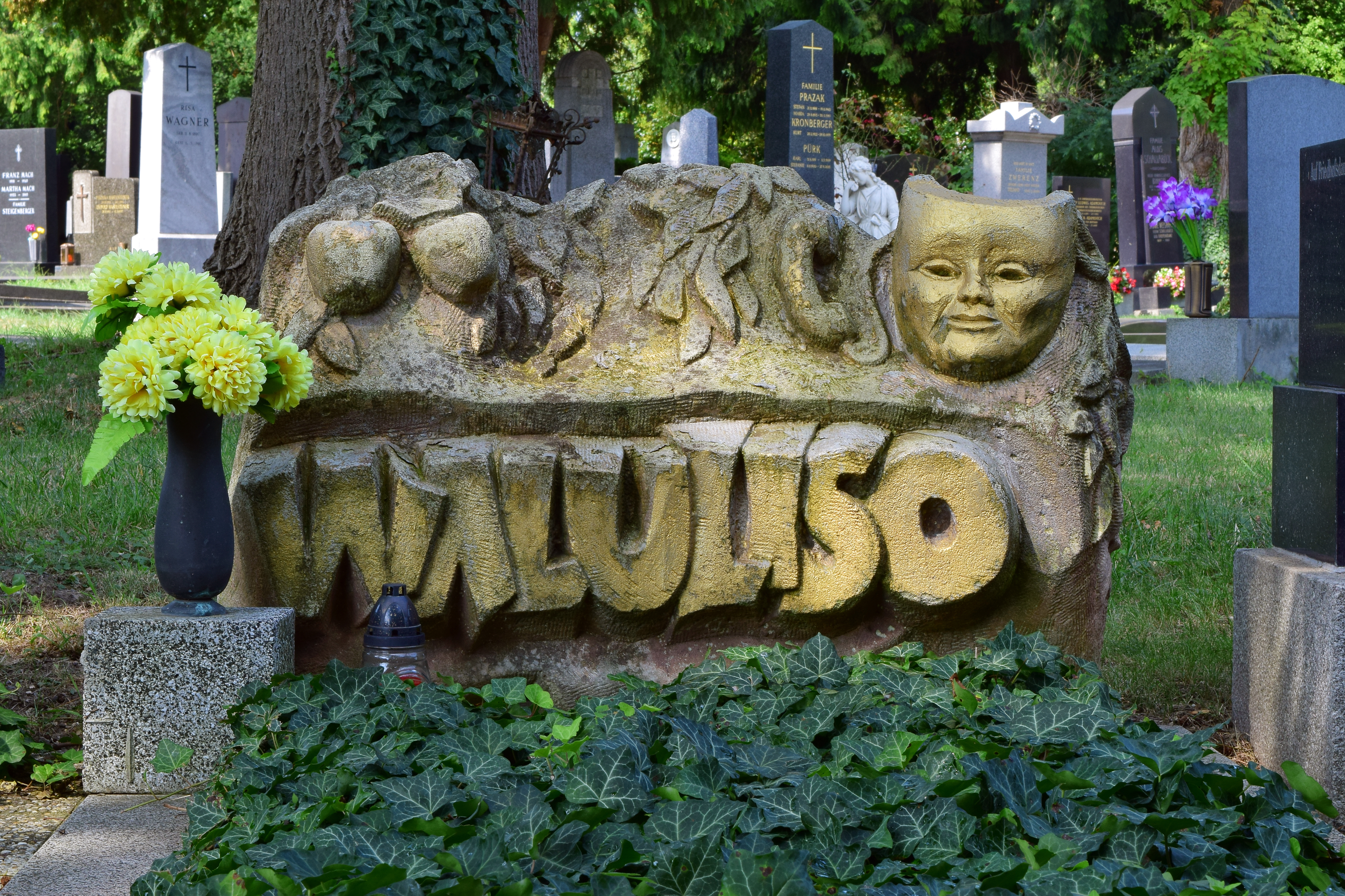 Grave of the Austrian "Original" Waluliso at the Wiener Zentralfriedhof